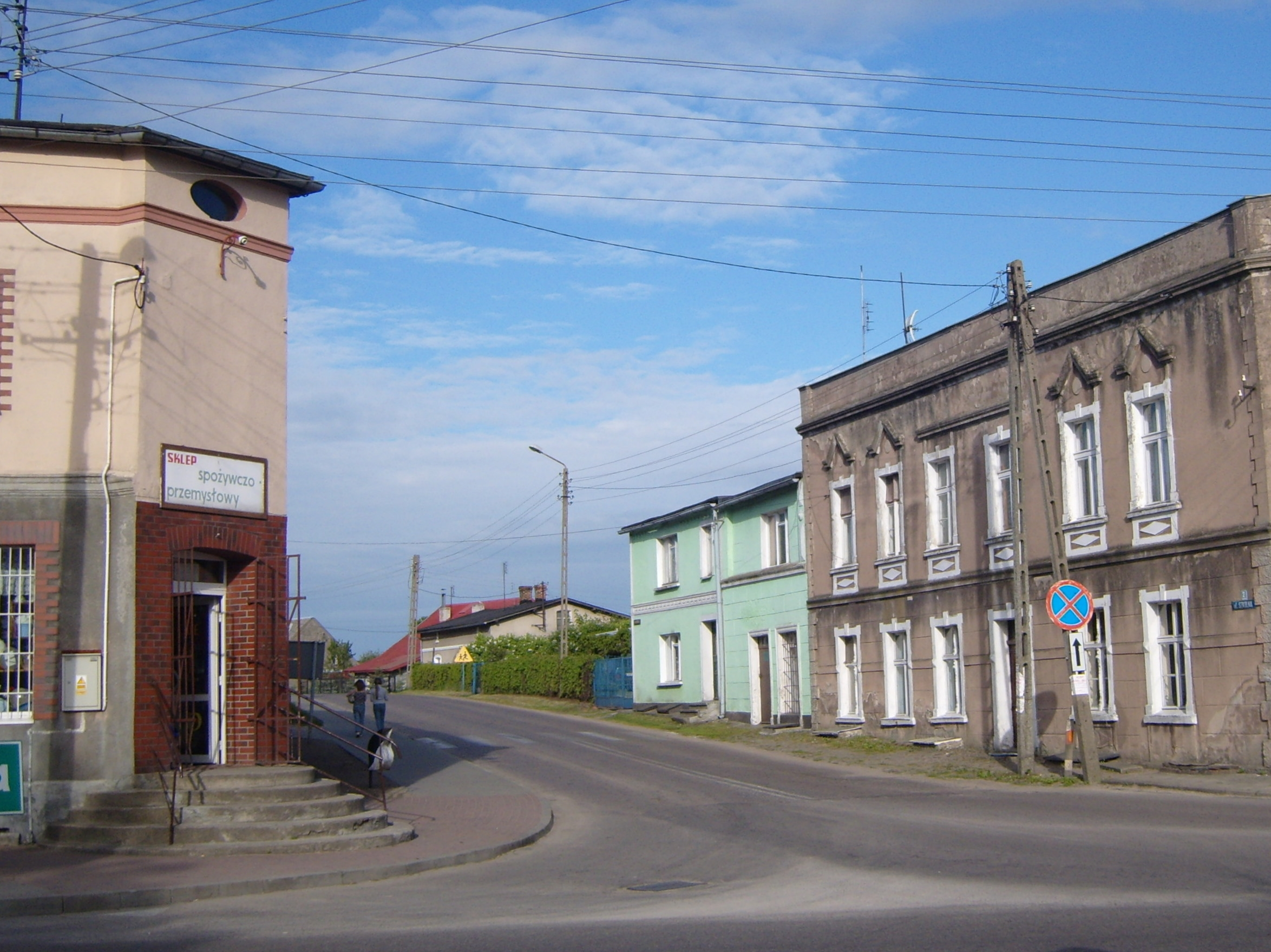 ul. Szkolna; small market in Borzechowo